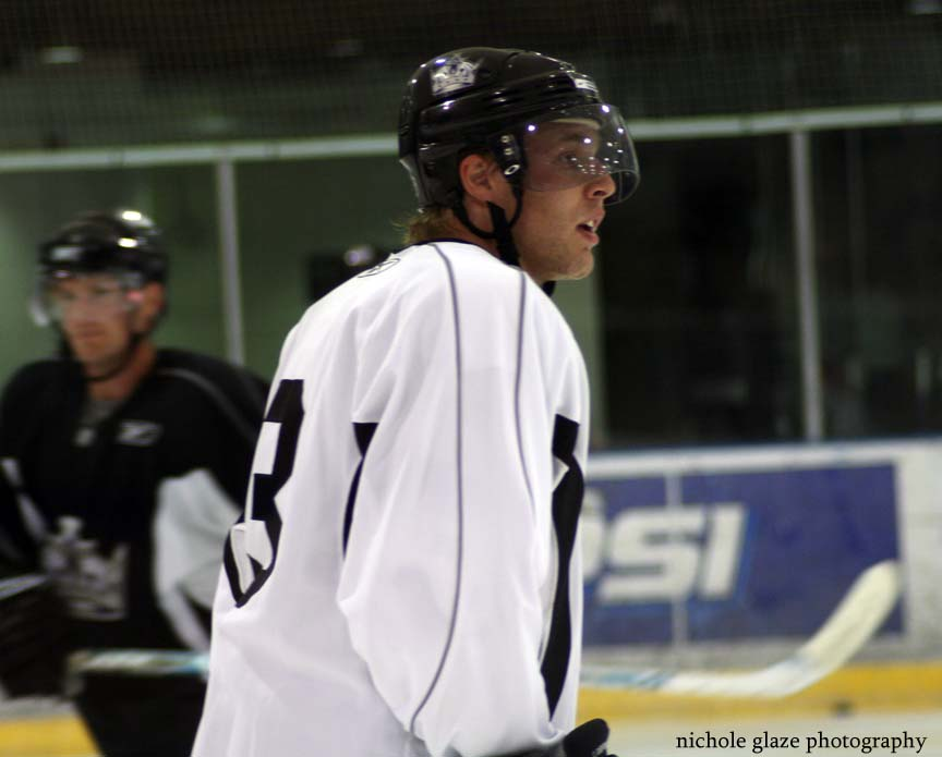 American ice hockey player Jack Johnson